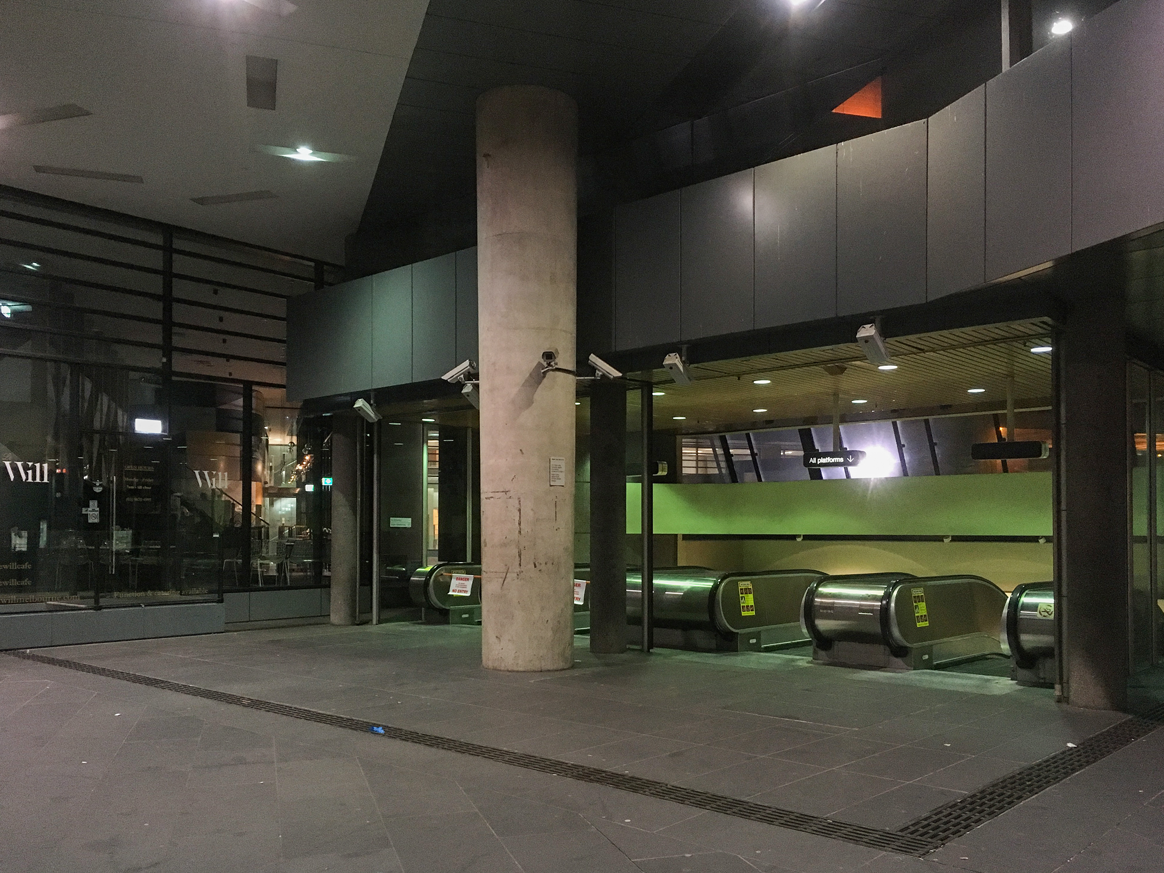 Flagstaff Station Entrance